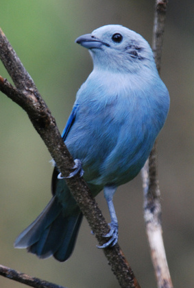 Blue Gray Tanager (Thraupis episcopus) were quite numerous at the Asa Wright Nature Center in Trinidad. It is found in a variety of habitats from forest borders to gardens and it eats on both fruit and insects.